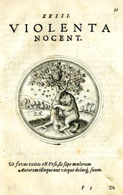 Emblem 23 from the Symbolorum et Emblematum Centuriae Quatuor of Joachim Camerarius, referring to the fable of the bear and the bees